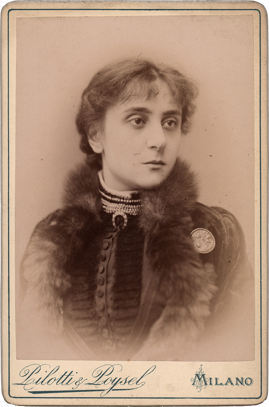 Portrait of Alice Barbi, mezzosoprano (1862-1948). Photo by Pilotti e Poysel, Milano, before 1948.